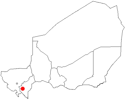 Birni N'Gaouré, Niger Location Map; created with the GIMP. Made by User:Acntx.